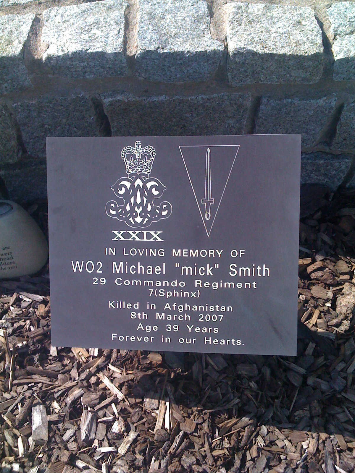 Memorial to Mike Smith at commando memorial